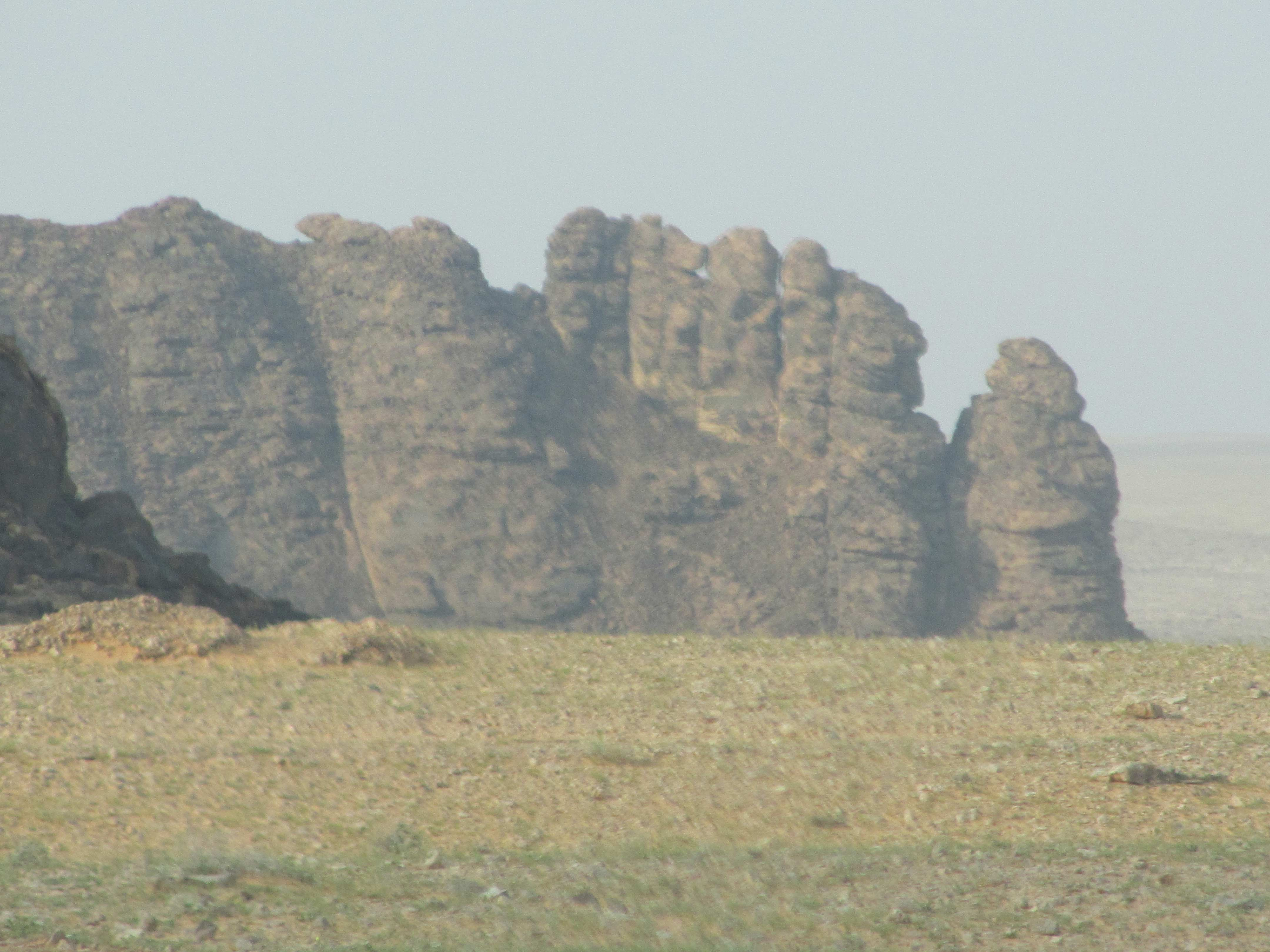 Asaba' Jildiyyah, part of Jildiyyah mountain